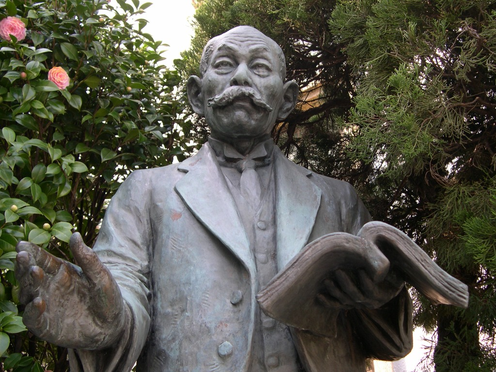 Statue of Tsubouchi Shoyo (1859-1935) at The Tsubouchi Memorial Theatre Museum, Waseda University, Shinjuku, Tokyo, Japan. ja: 坪内逍遥 の胸像。 場所：早稲田大学坪内博士記念演劇博物館（東京都新宿区）。